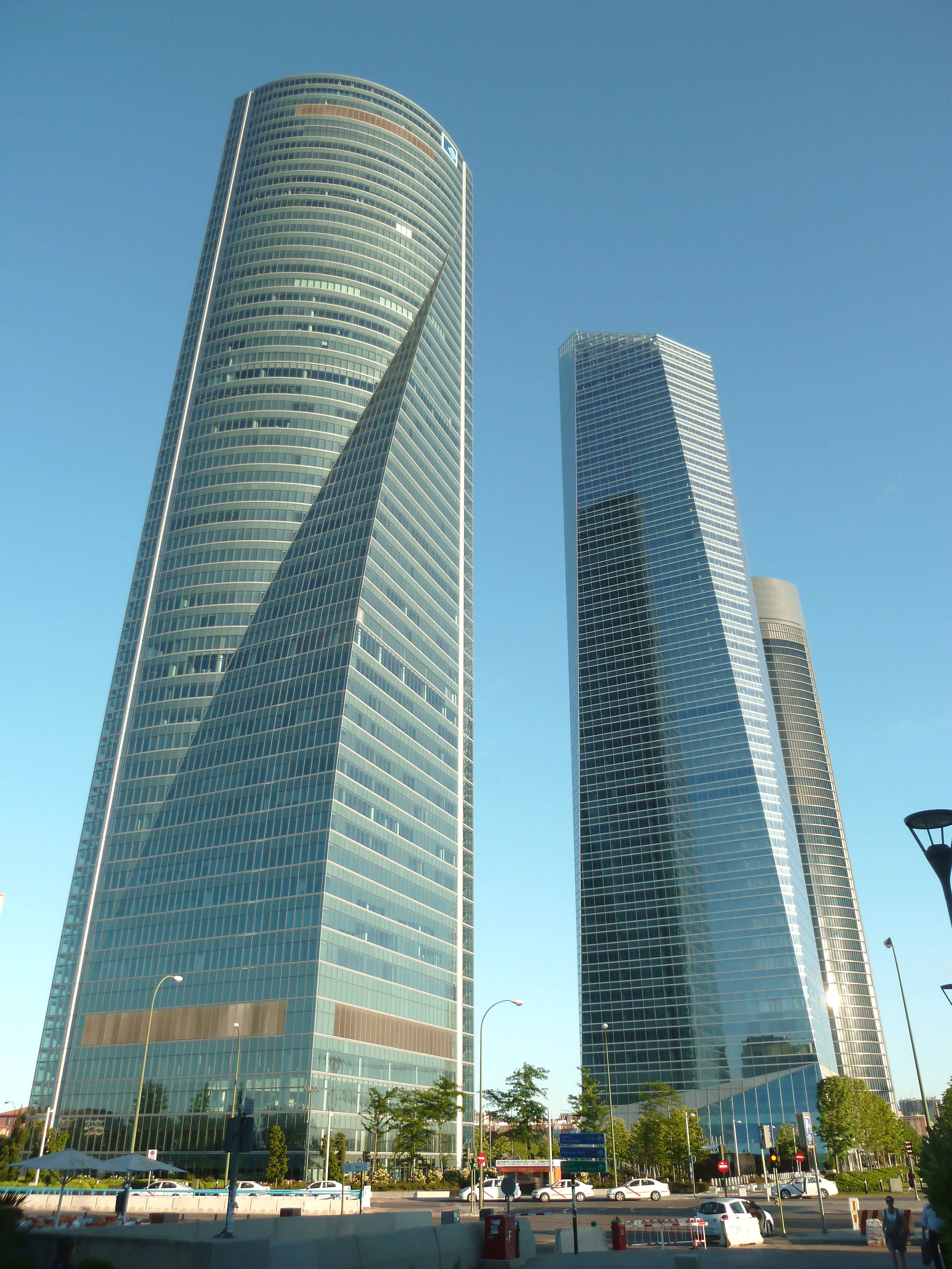 View of Cuatro Torres Business Area in Madrid (Spain). From left to right: Torre Espacio, Torre de Cristal and Torre Sacyr Vallehermoso.